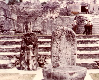 Tikal, North Acropolis, showing two carved stelae. My photo, 1975. I release this photo to Wikipedia under the terms of the GNU_Free_Documentation_License -- Infrogmation 22:29 13 Jul 2003 (UTC)